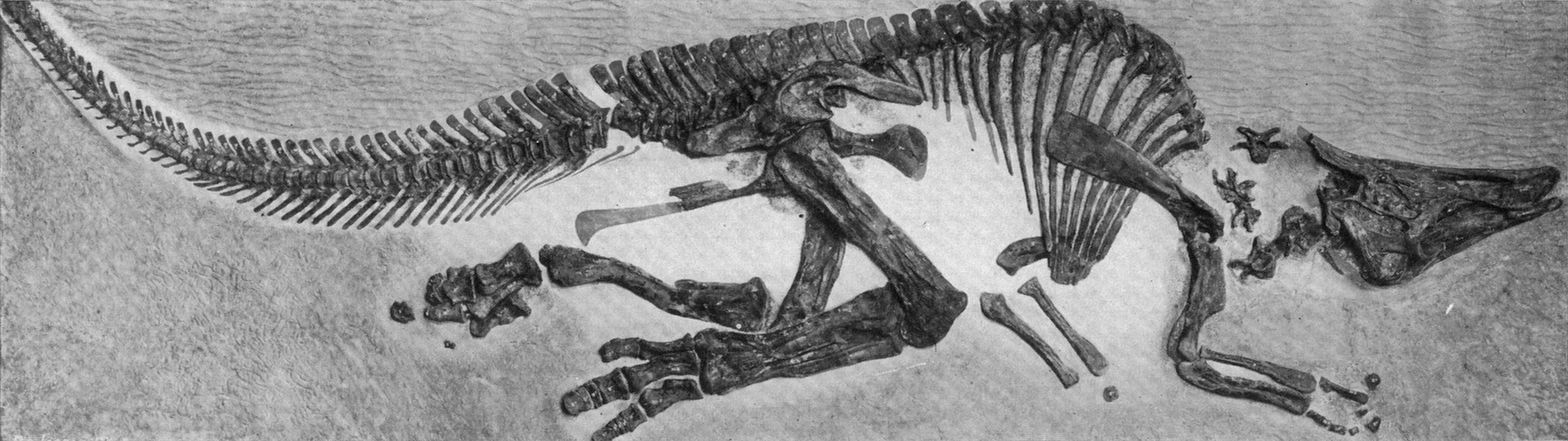 Panel mount of the holotype Saurolophus osborni skeleton, AMNH 5220.